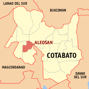 Map of the Cotabato showing the location of Aleosan